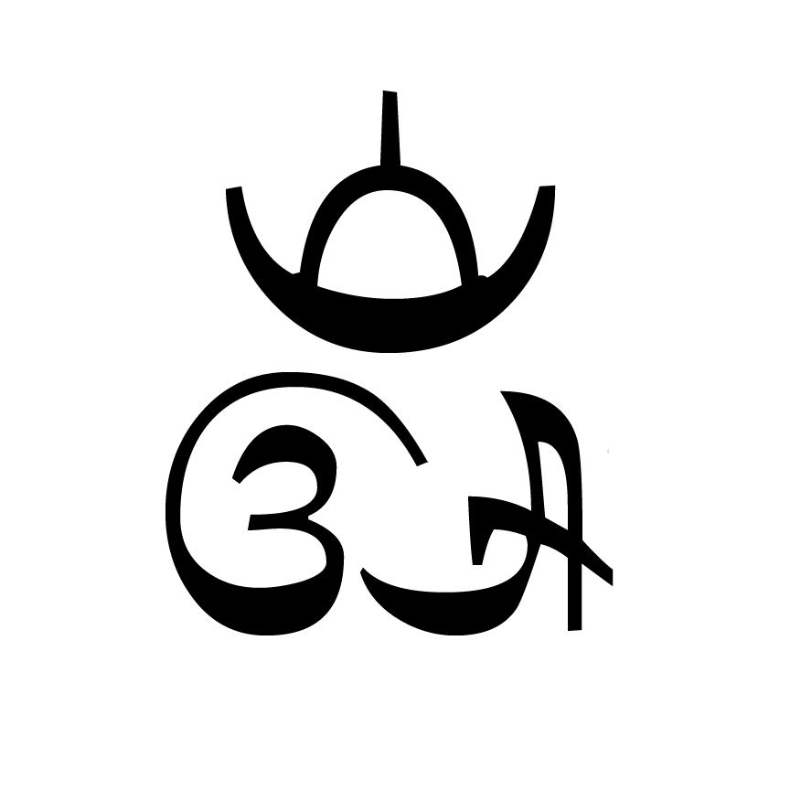 Letter Ang in Balinese script.